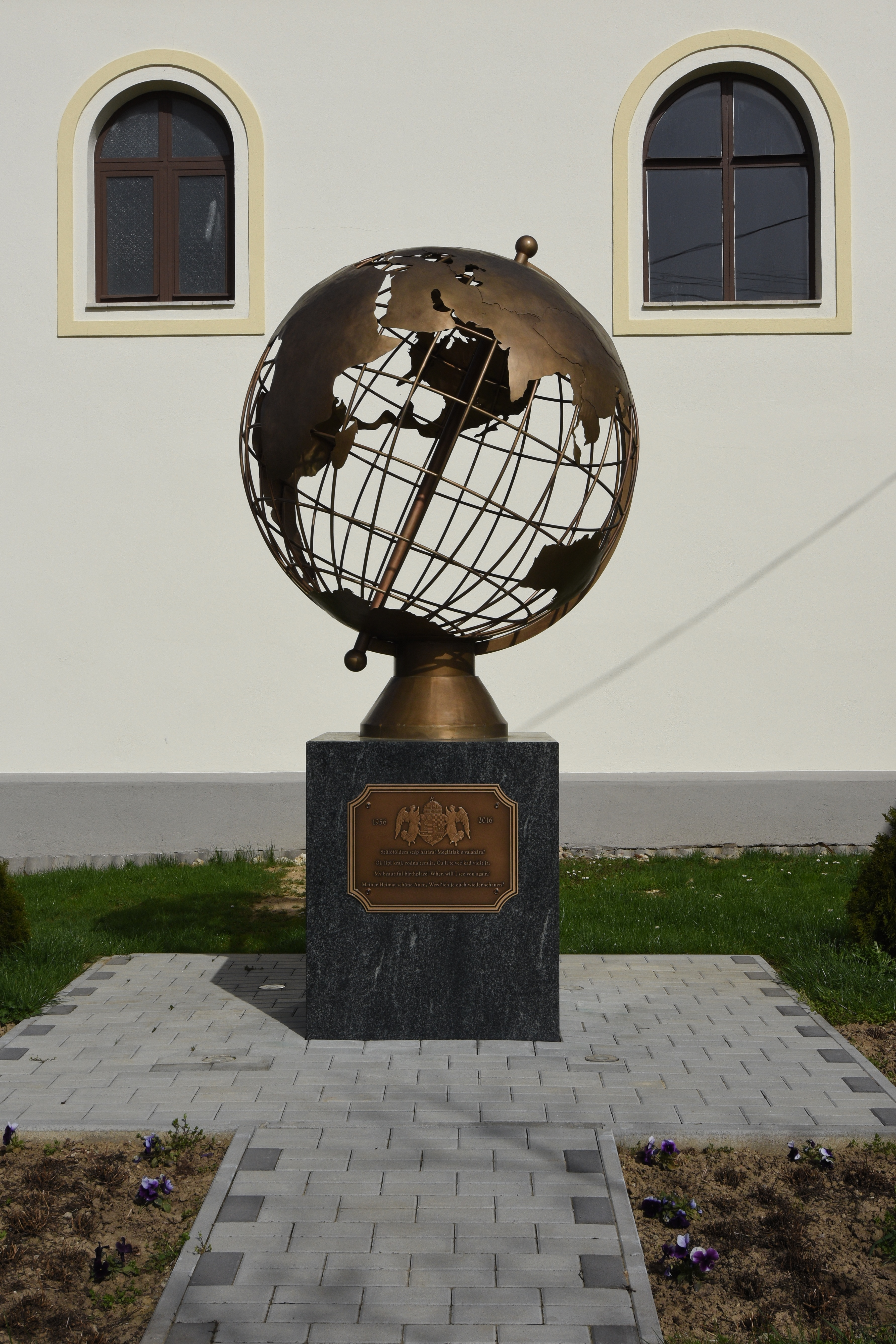 Memorial Szentpéterfa